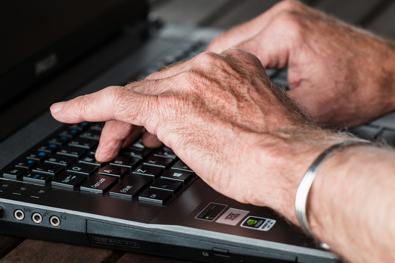 Hands